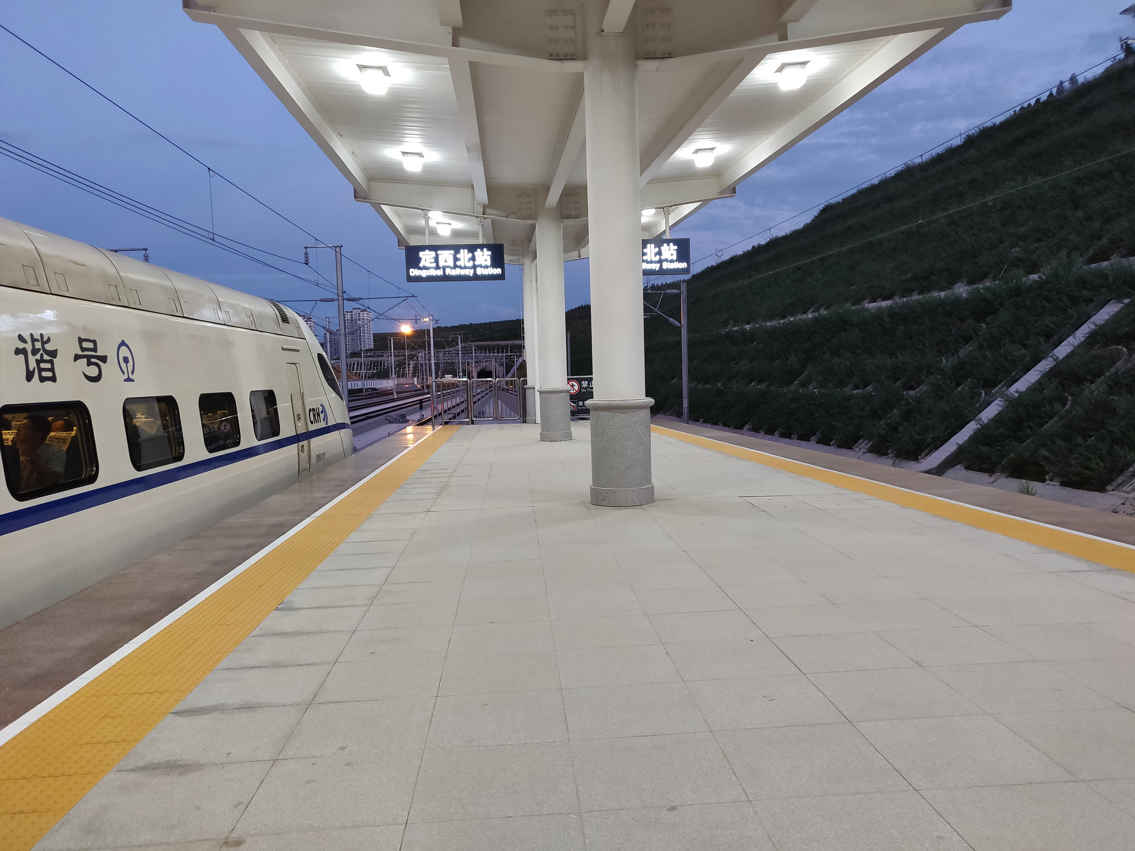 Platform at Dingxibei Railway Station, tracks towards Baojinan Railway Station, shot on Jul 24, 2018